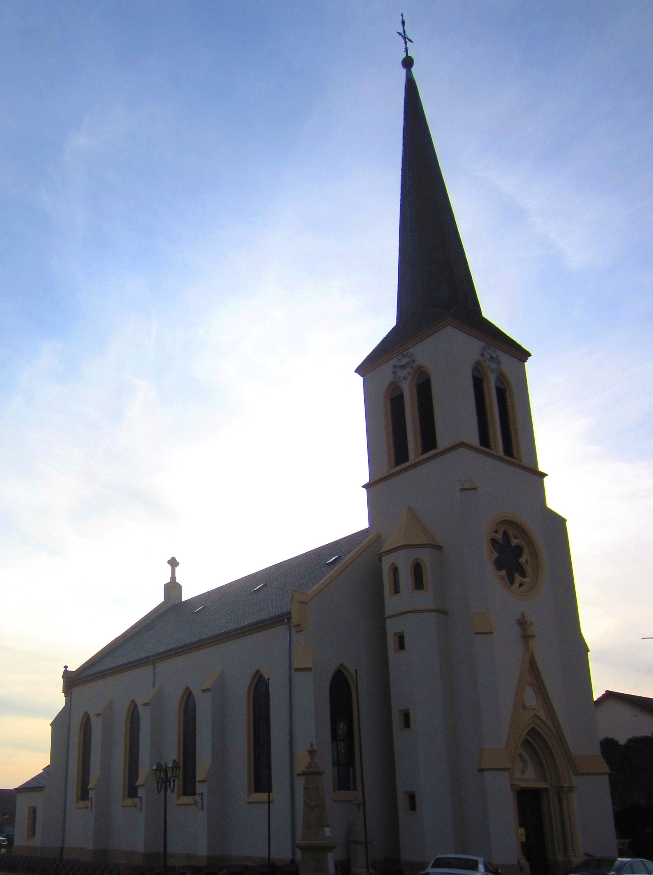 Description eglise Illange Date23 November 2011Sourcemon appareil photoAuthorAimelaimePermission (Reusing this file) eglise Illange